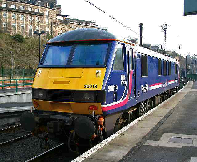 ScotRail Class 90 at Edinburgh Waverley